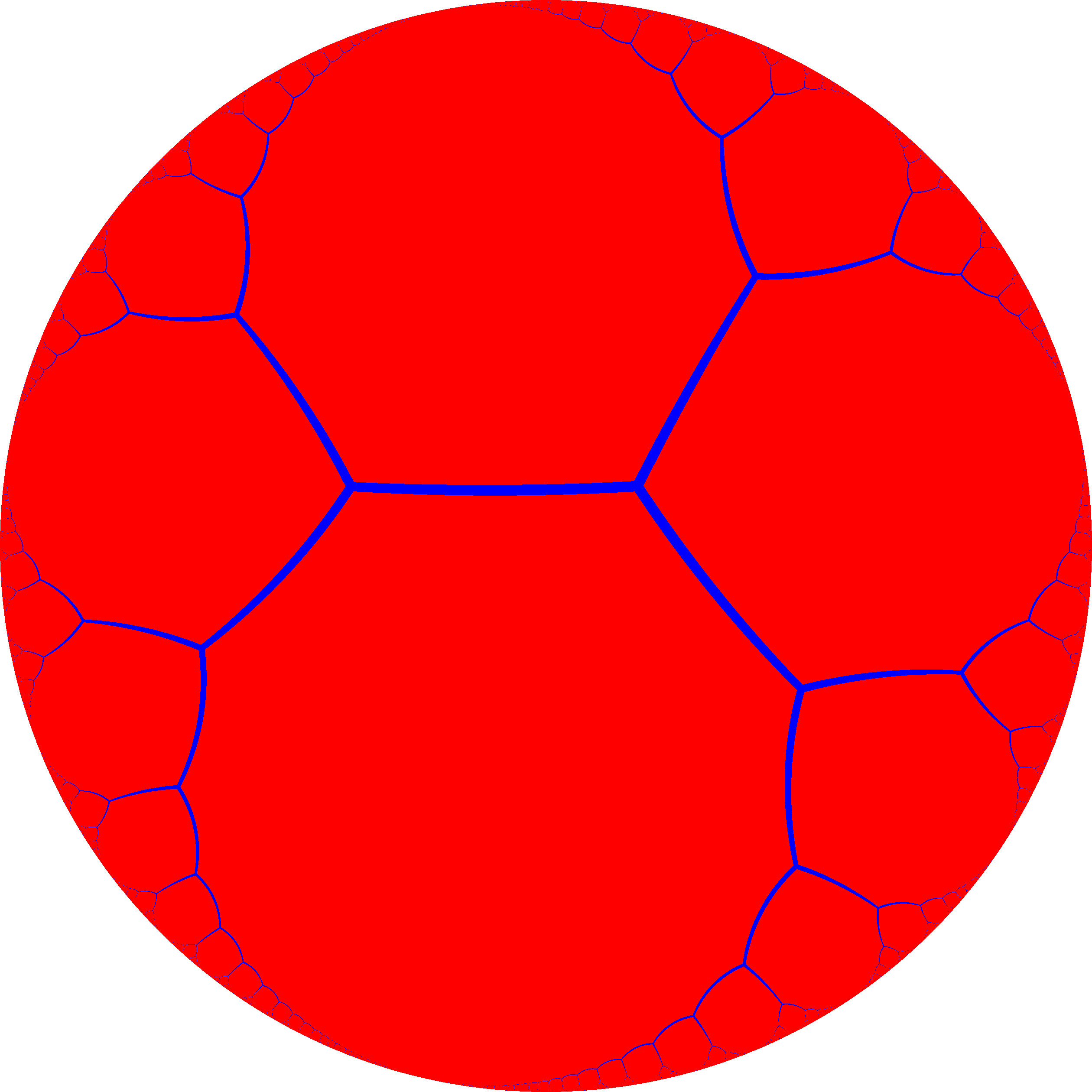 Uniform tiling of hyperbolic plane, o3o∞x. Generated by Python code at User:Tamfang/programs. Equivalent: Dual